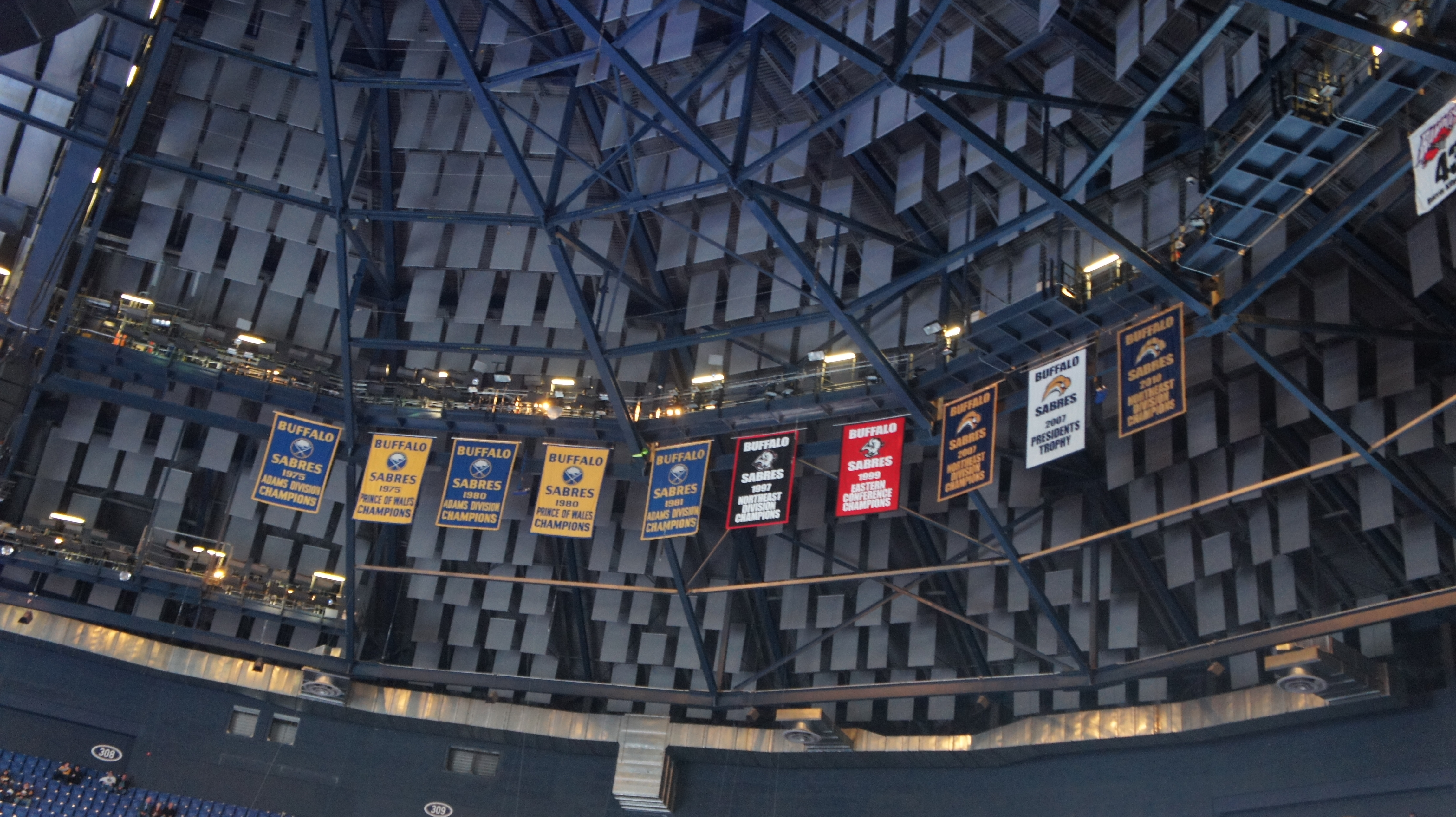 Buffalo Sabres Banners - First Niagara Center